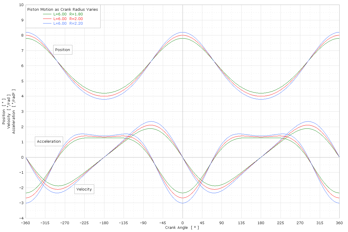 Graph showing piston motion (position, velocity, acceleration) for example rod length (L) and crank radius (R) values.